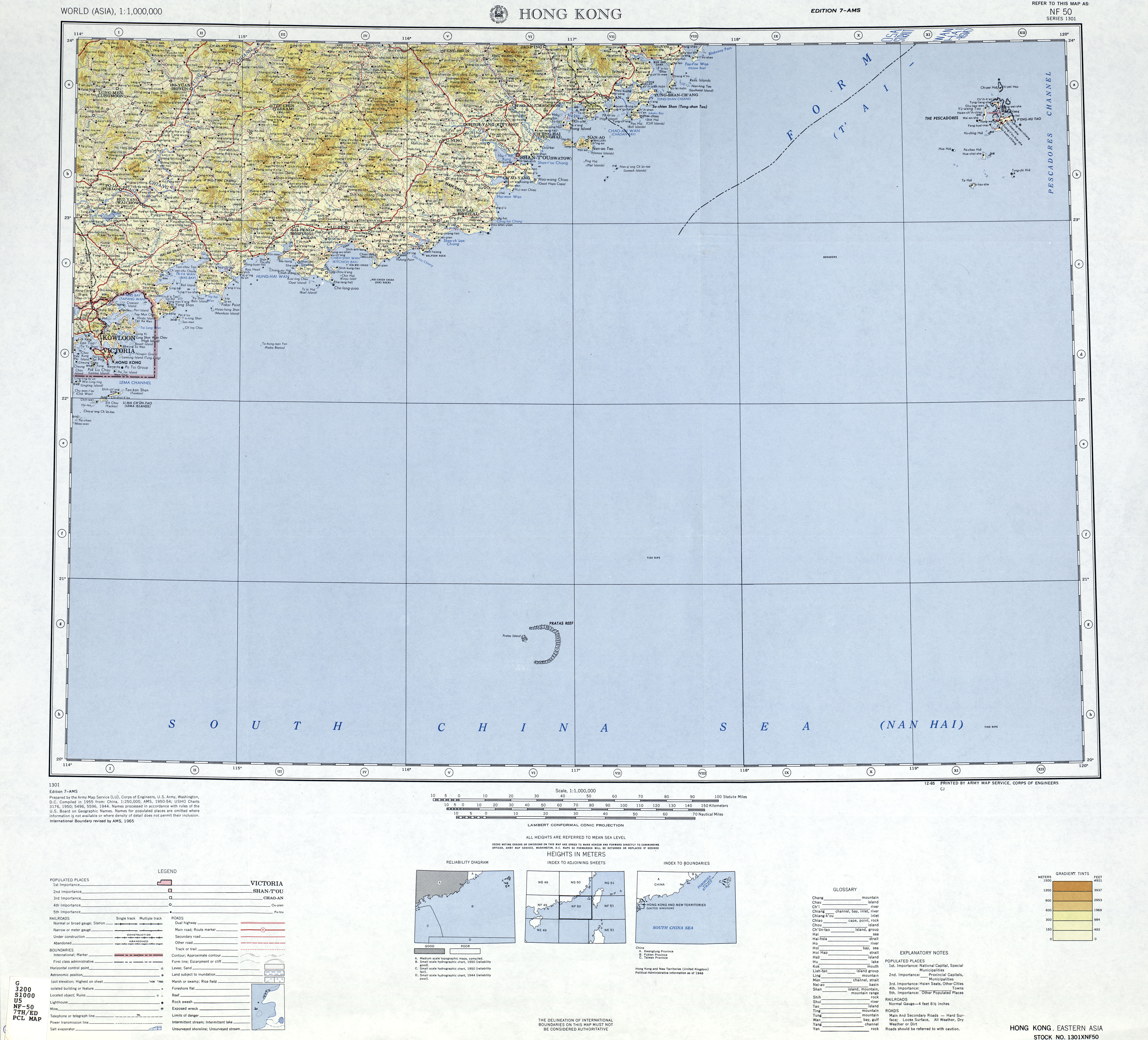 Map from the International Map of the World 1:1,000,000